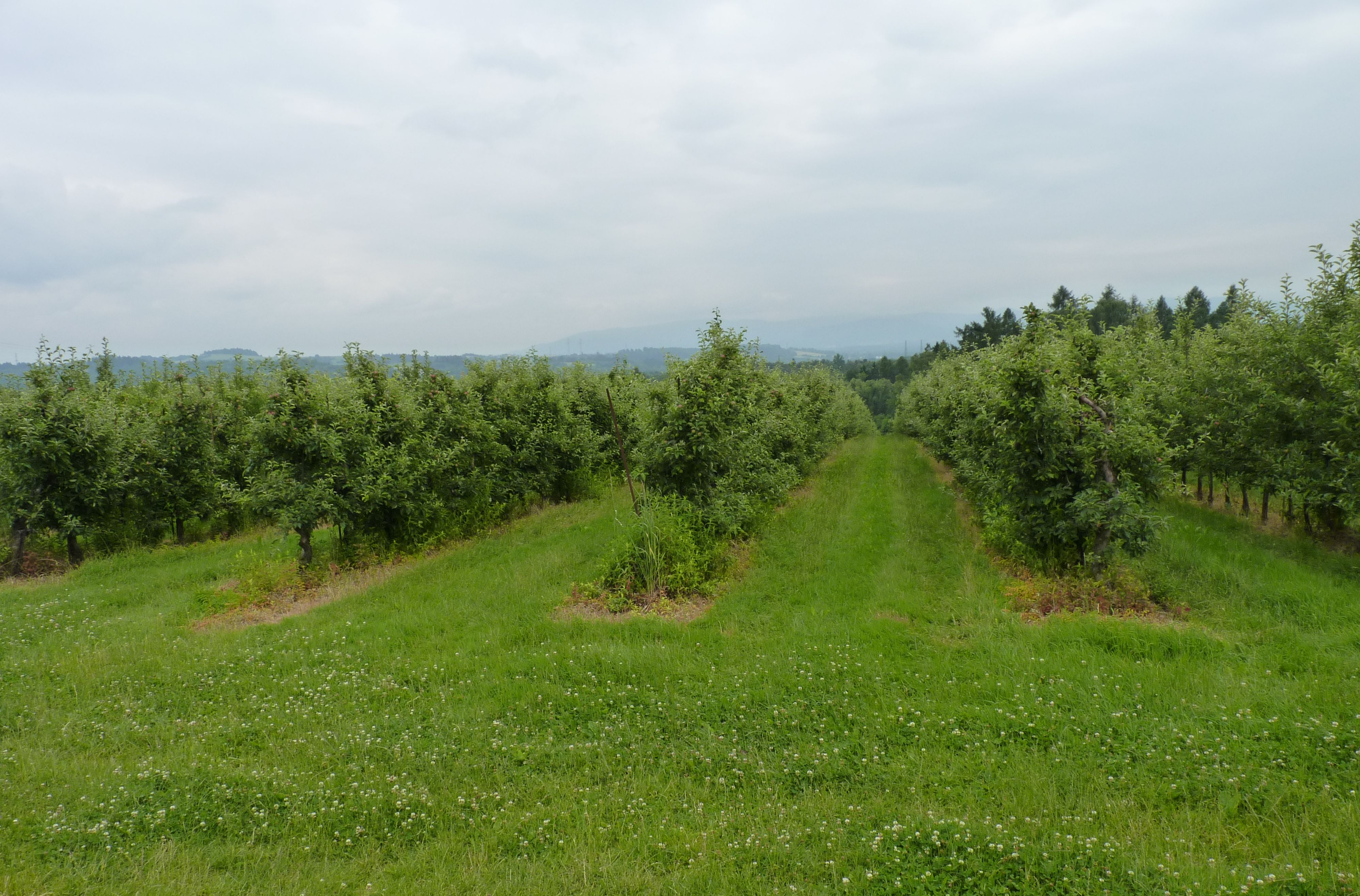 Havířov-Životice. Karviná District, Moravian-Silesian Region, Czech Republic